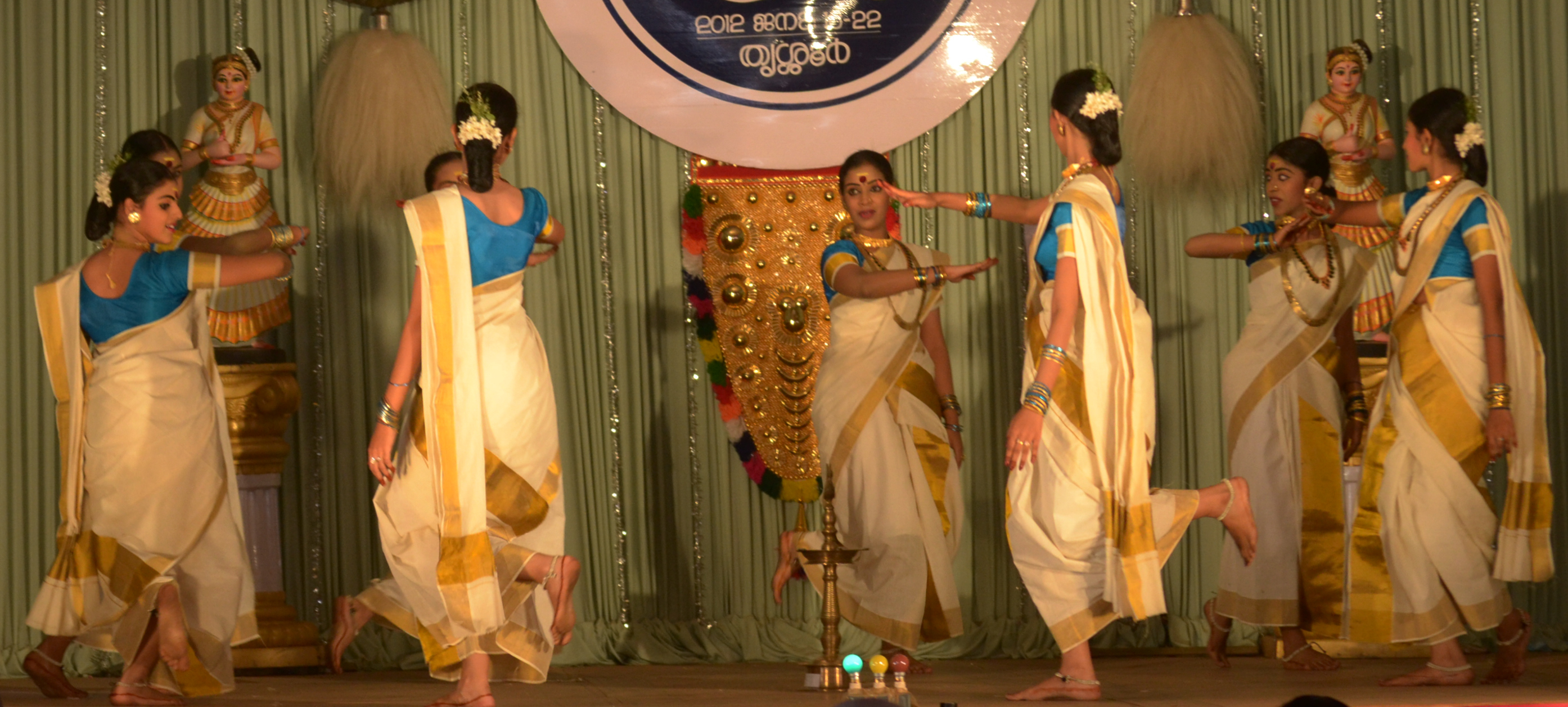 തിരുവാതിര കളിയിൽ നിന്നും ഒരു രംഗം.കേരള_സ്കൂൾ_കലോത്സവം_2012